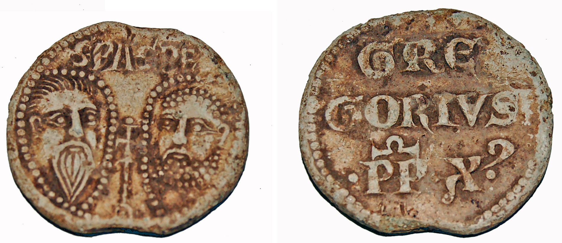 Lead alloy Papal Bulla of Gregory X Date: 1271-76 Diameter 37mm, thickness 5mm, weight 39.63g. Obverse: On the right, St. Peter is also depicted with complete facial features and his hair and beard are formed by pellets. Above the heads, the saints’ abbreviations are still partially visible with ‘SPA’ for St. Paul to the left and ‘SPE’ for St. Peter to the right. Both heads are separately surrounded by a tear-drop formation of linear beads, with a cross pattée supported on a staff between them. Reverse: GRE/GORIVS/PP X The ‘PP’ means ‘pastor pastorum’ and is translated as ‘shepherd of the shepherds’. There artefacts is in excellent condition. Papal bullae such as this would have acted as seals on official Papal documents to authenticate their provenance and authority.